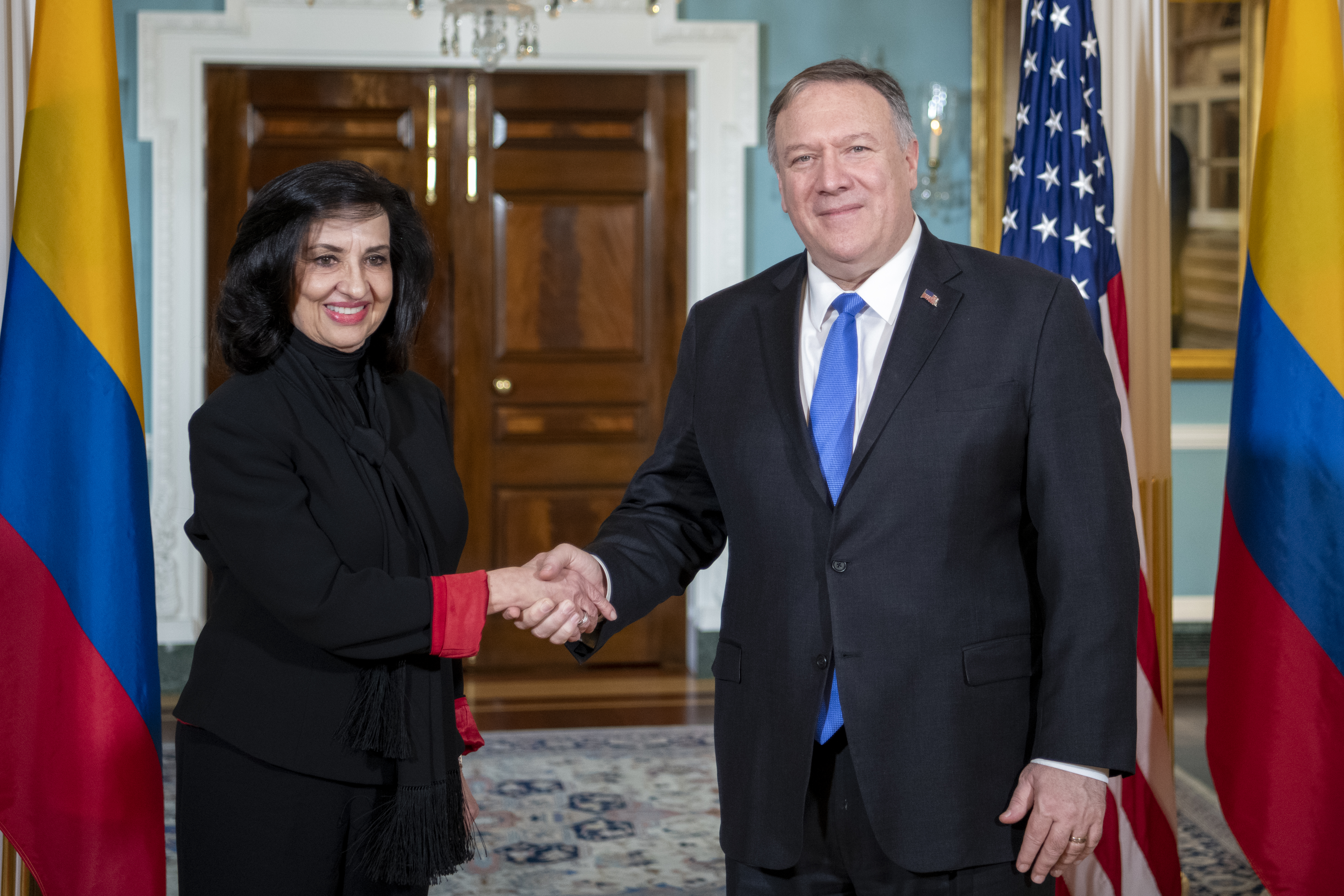 Secretary of State Michael R. Pompeo meets with Colombian Foreign Minister Claudia Blum, at the Department of State, in Washington, DC, on December 19, 2019. [State Department photo by Freddie Everett/ Public Domain]